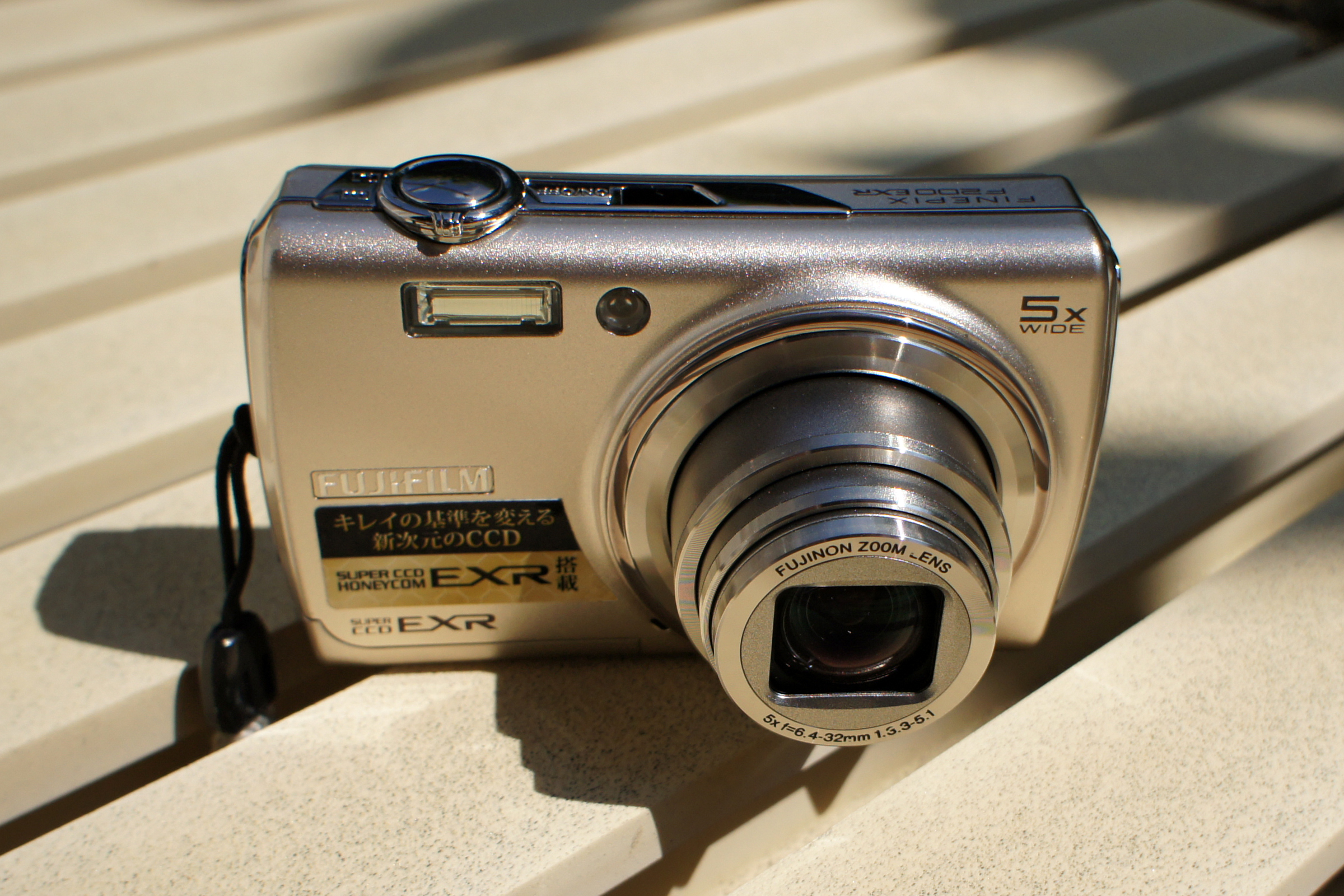 Fujifilm FinePix F200EXR